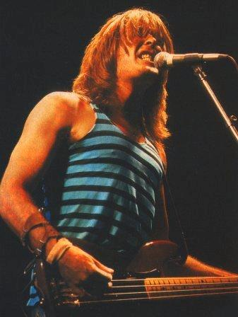 Cliff Williams, picture taken in 1981 during AC/DC's For Those About to Rock tour.